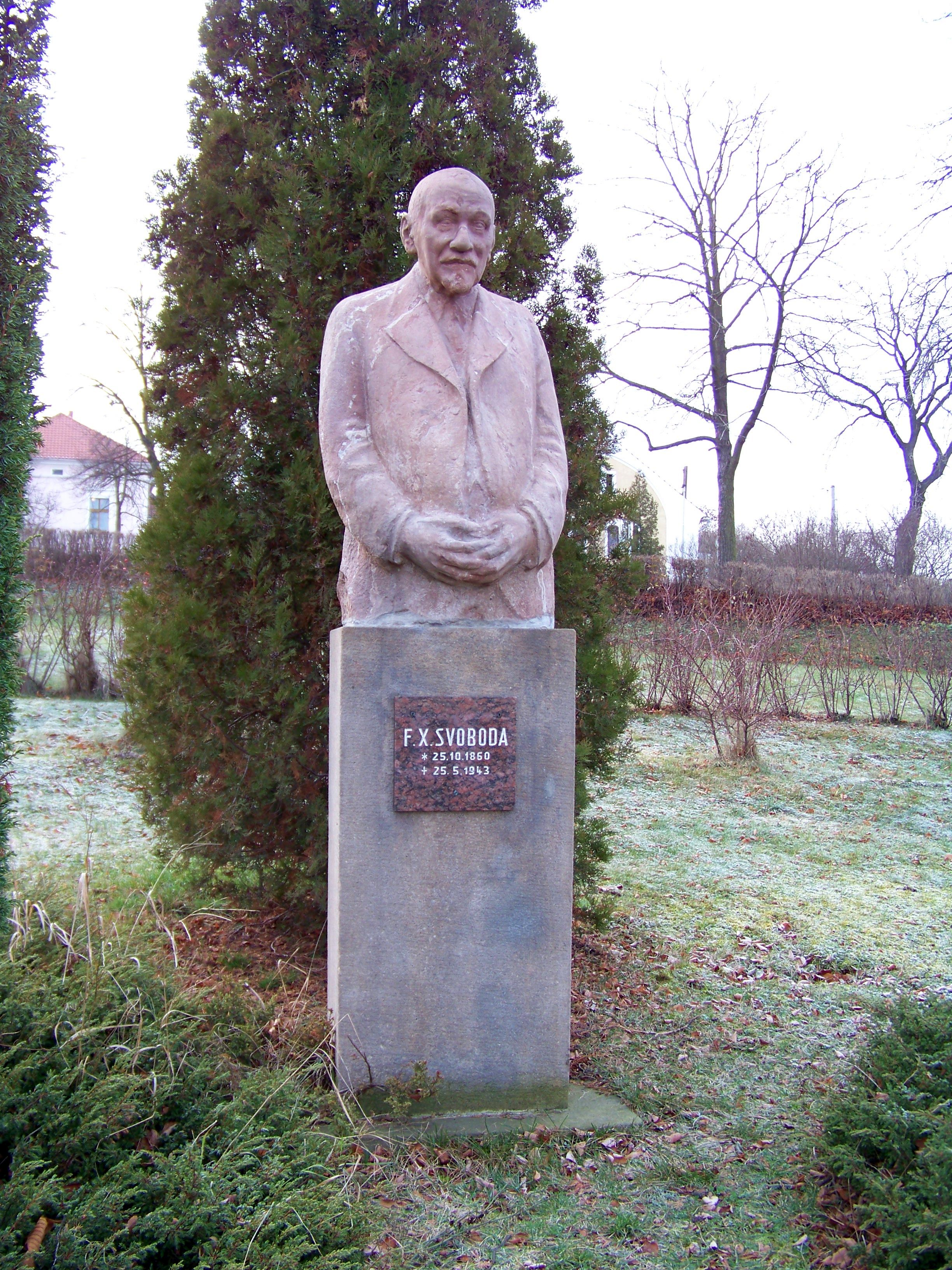 Mníšek pod Brdy, Prague-West District, Central Bohemian Region, the Czech Republic. F. X. Svoboda's Square, the memorial of F. X. Svoboda. - Google Maps - Google Earth